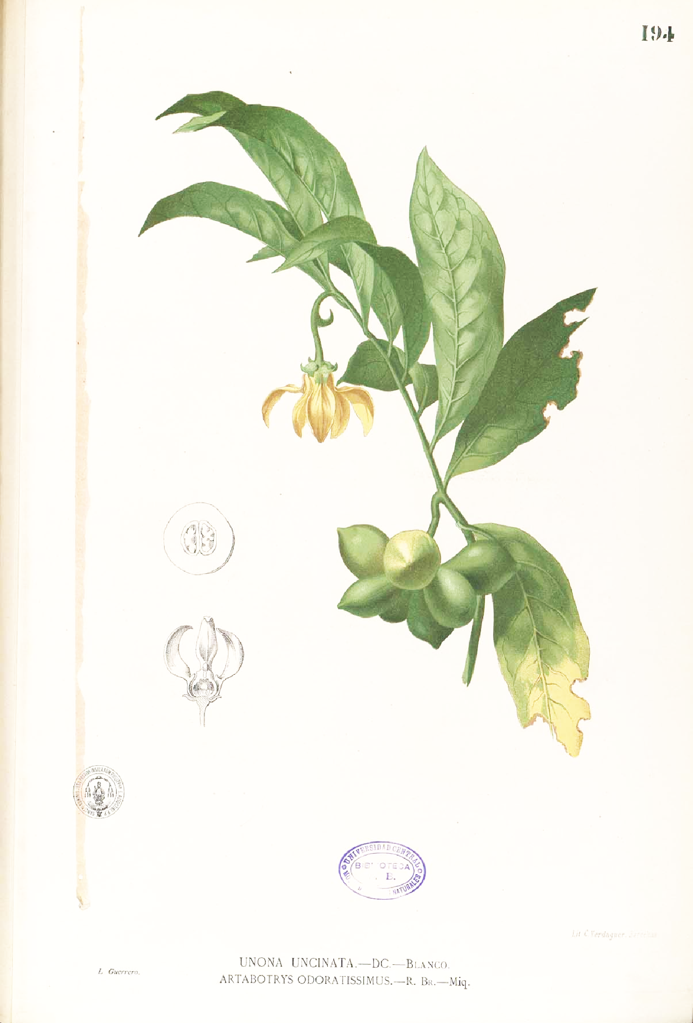 Plate from book